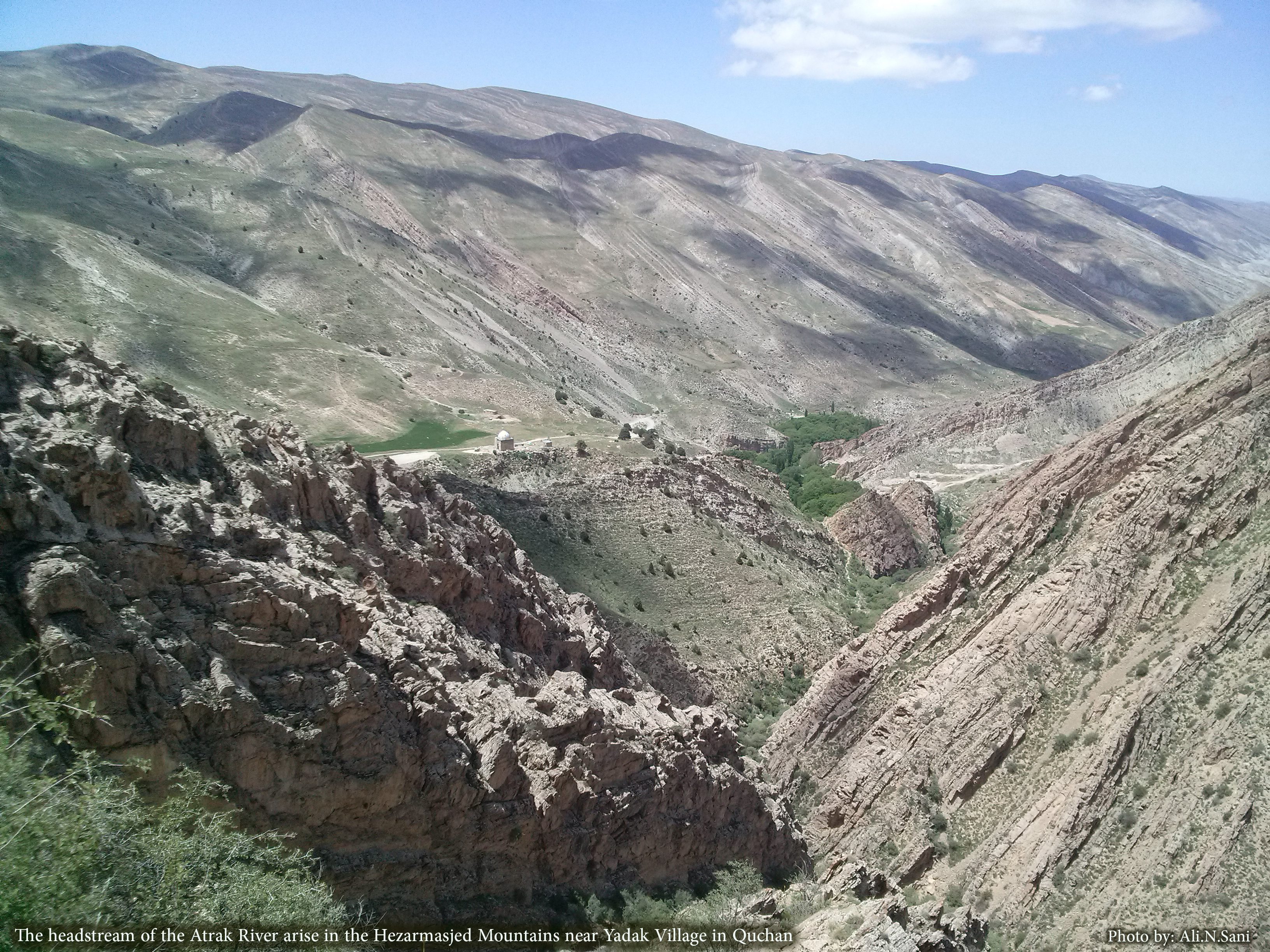 Atrak Headstream near Yadak in Quchan County, Iran